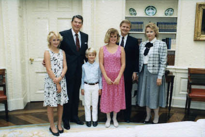 Photo Op. With President Ronald Reagan, Congressman Steve Bartlett and his family